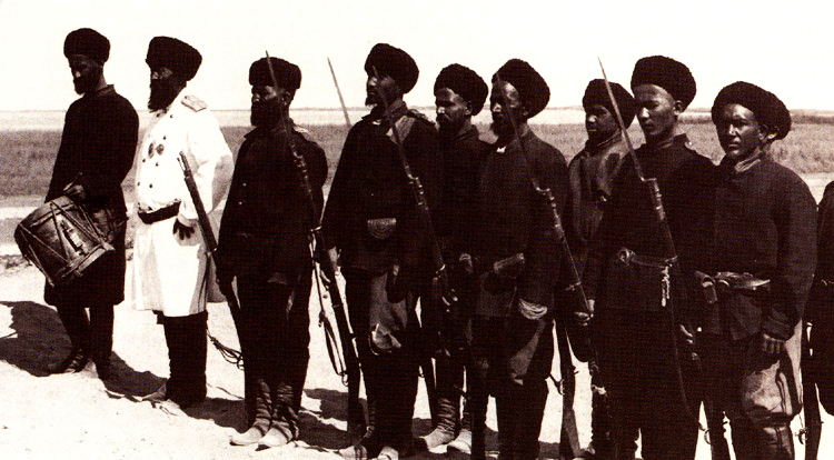 Bukharan army platoon. Photo unknown artist, early. XX century.